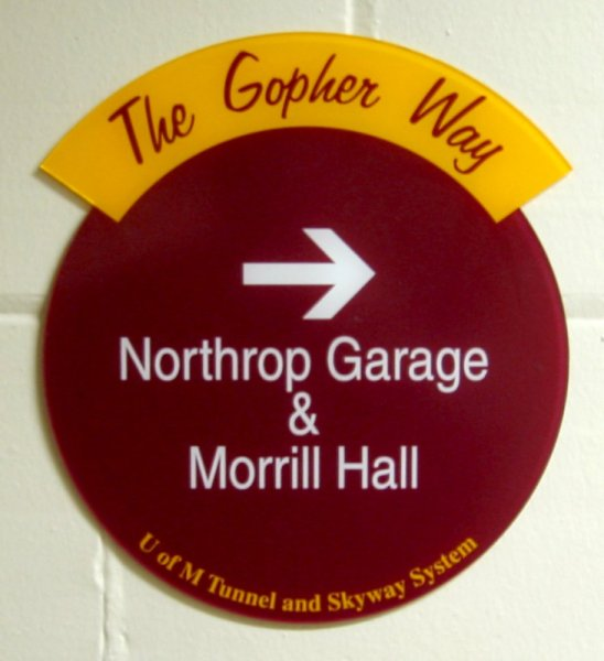 A sign denoting the next stop of the The Gopher Way. Taken in the basement of Johnston Hall on March 10, 2006.